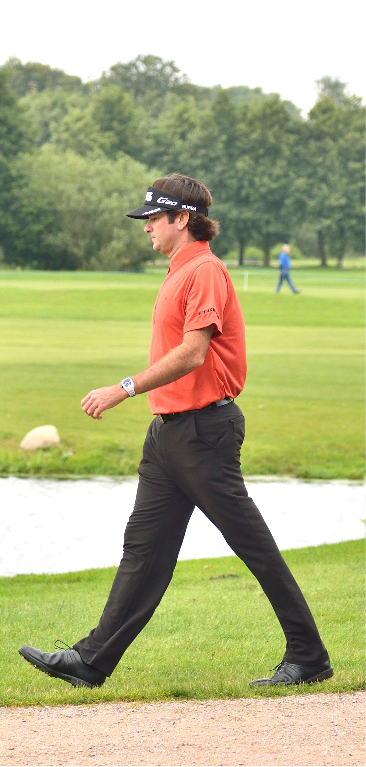 Bubba Watson at Schüco Open 2012, Gut Kaden Golfclub